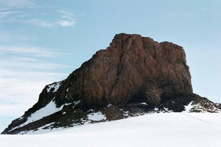 Castle Rock stands sentinel near McMurdo Station on Ross Island.